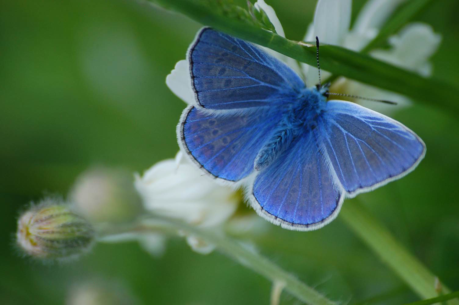 Polyommatus icarus